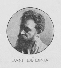 Portrait of Jan Dědina (1870-1955), Czech painter.